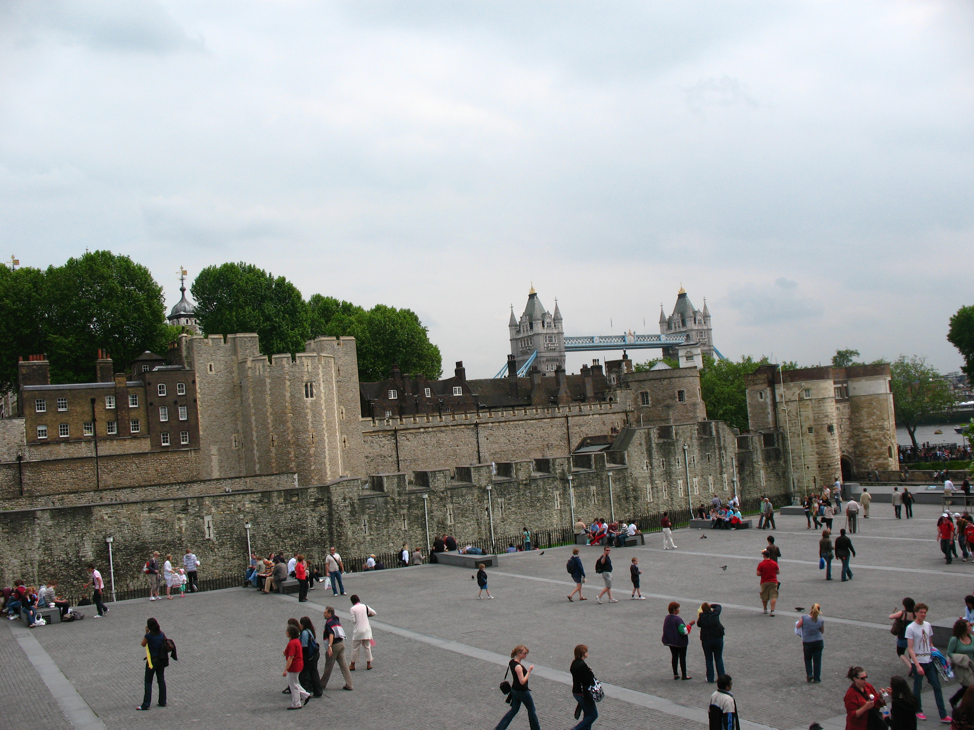 City of London